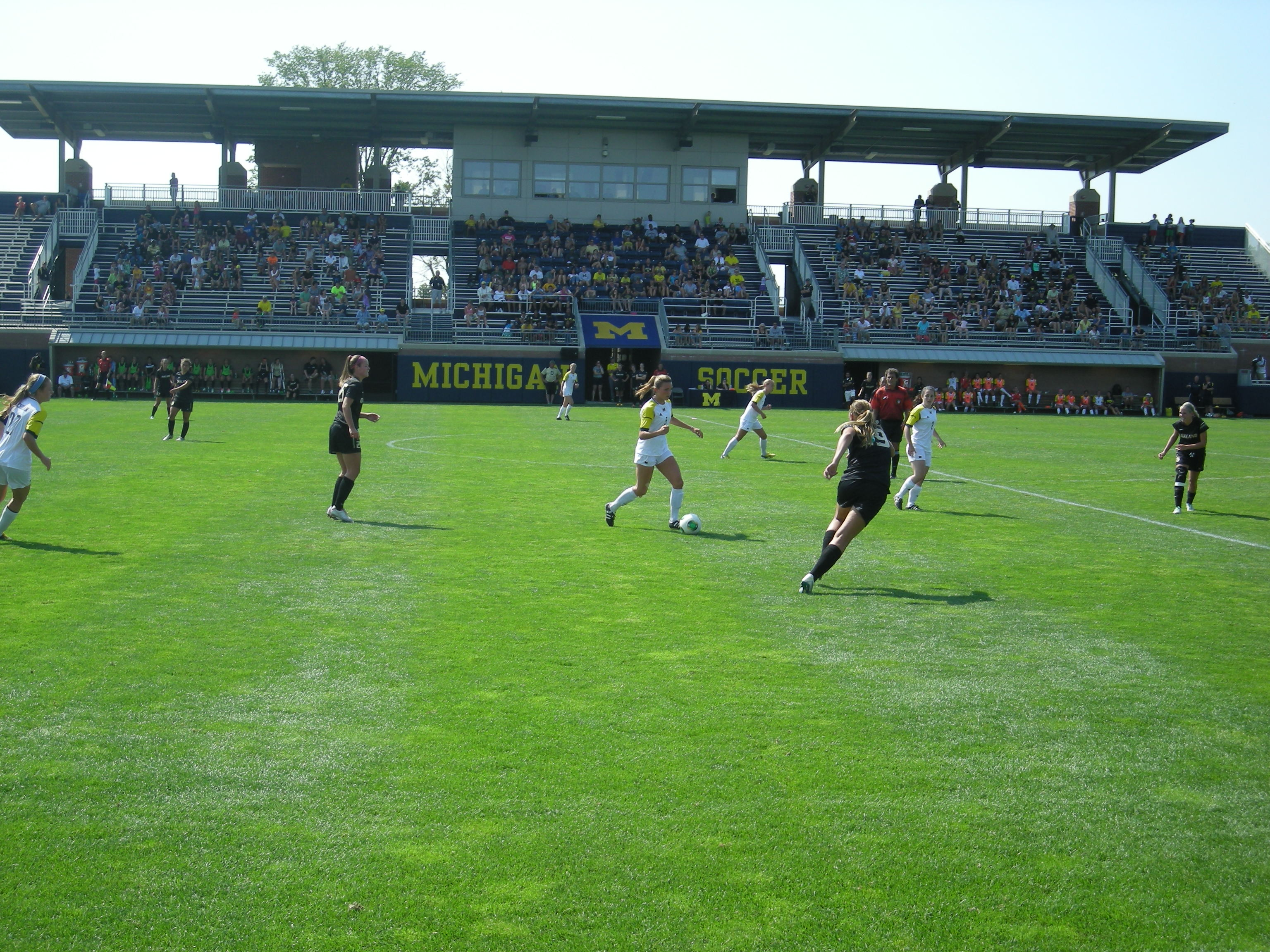 In-game action during the Oakland Golden Grizzlies vs. Michigan Wolverines women's soccer game at the U-M Soccer Stadium in Ann Arbor, Michigan (United States). Michigan won 6–1.